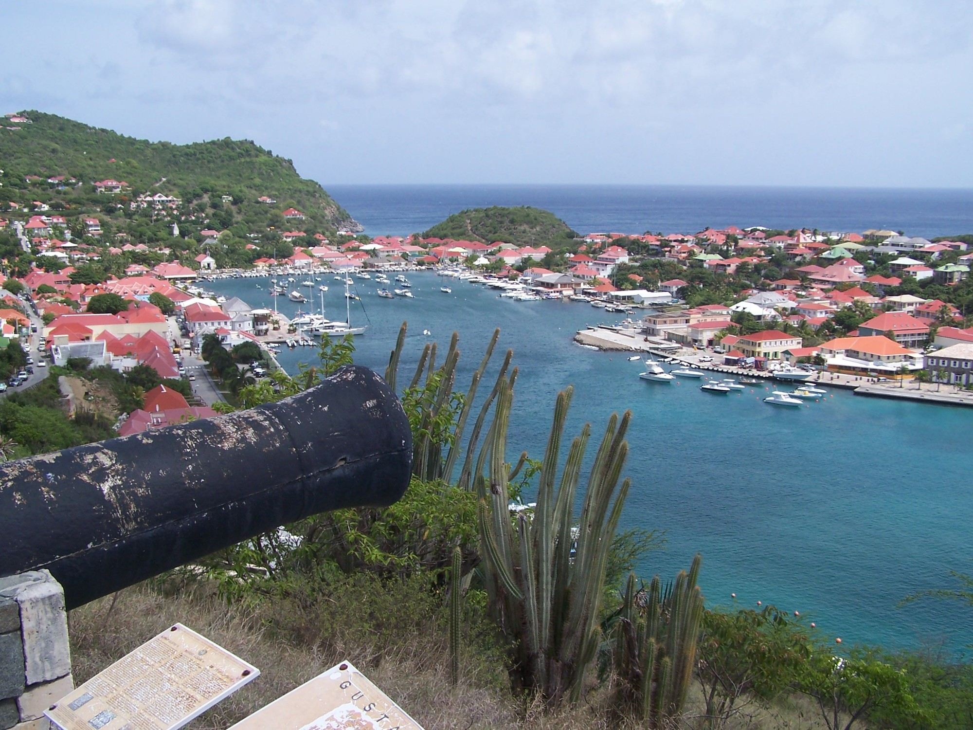 Gustavia Harbour St Barthelemy. Gustavia Harbour St Barthelemy, Caribbean.